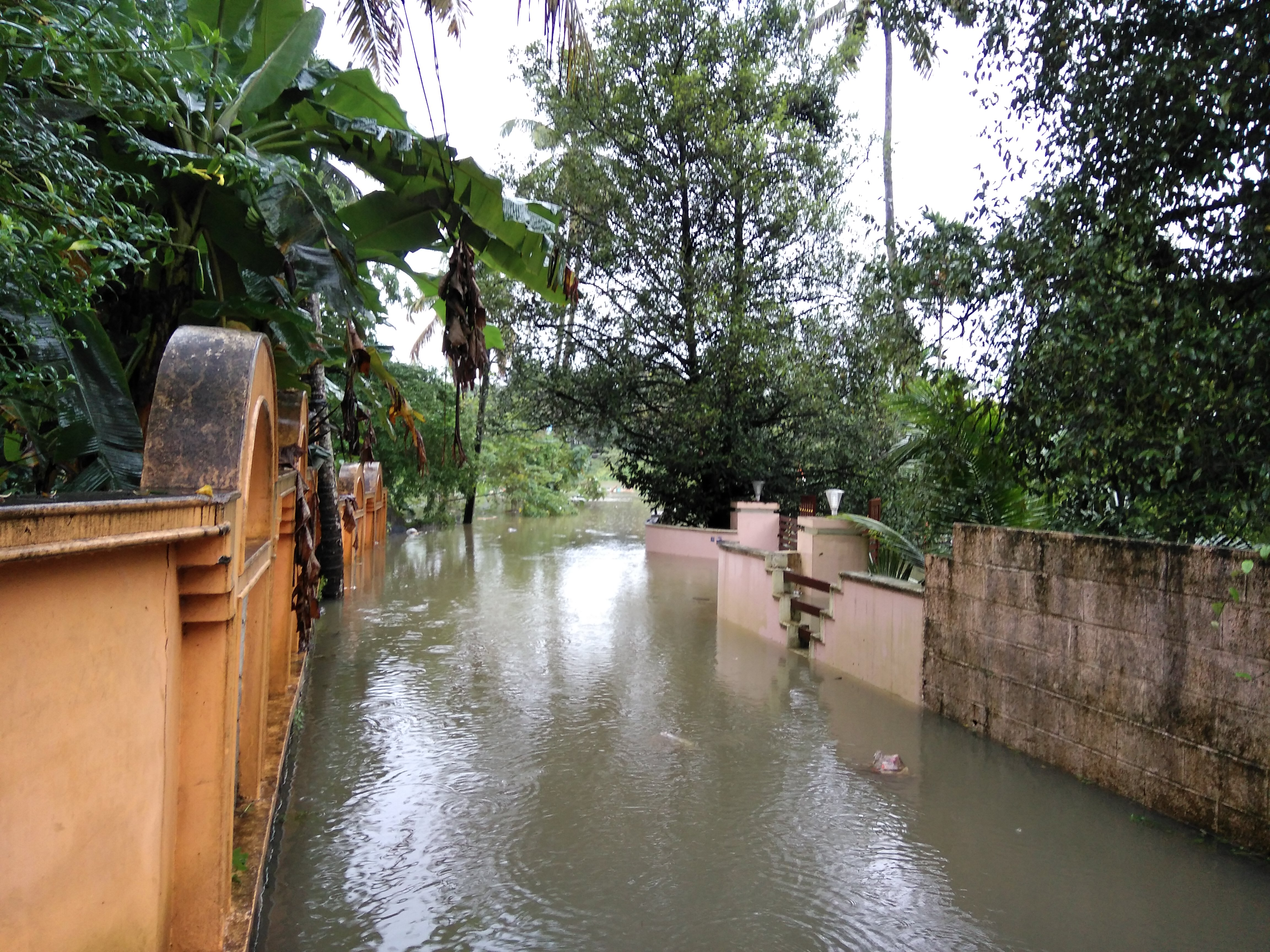 Photo of Kerala Floods 2018 from Angamaly